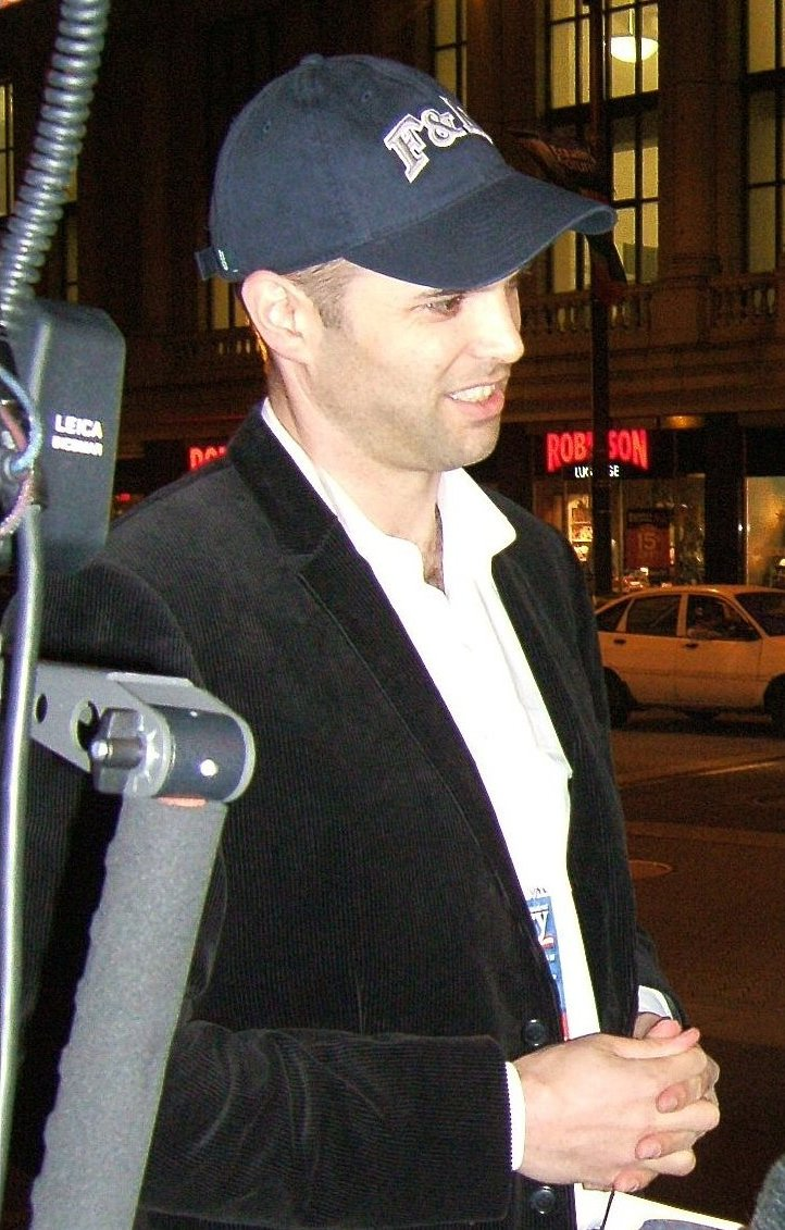 American journalist Matt Taibbi, reporter for Bill Maher's television program, in Philadelphia, interviewing an Obama supporter during the 2008 presidential election.